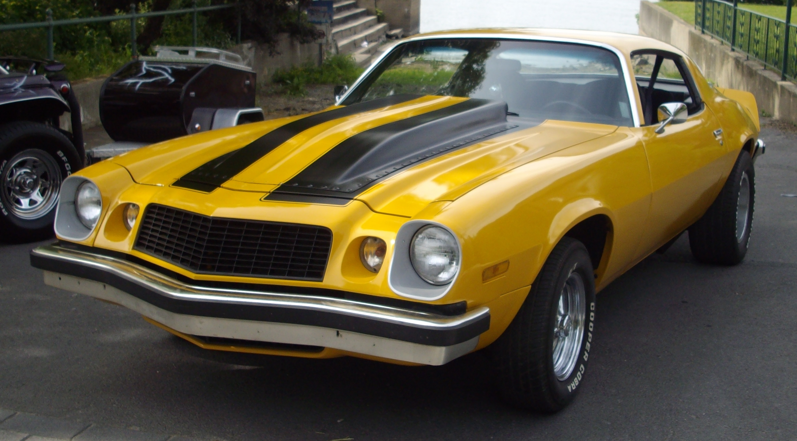 Chevrolet Camaro Transformers Bumblebee photographed in Ste. Anne De Bellevue, Quebec, Canada at Cruisin' At The Boardwalk 2012.